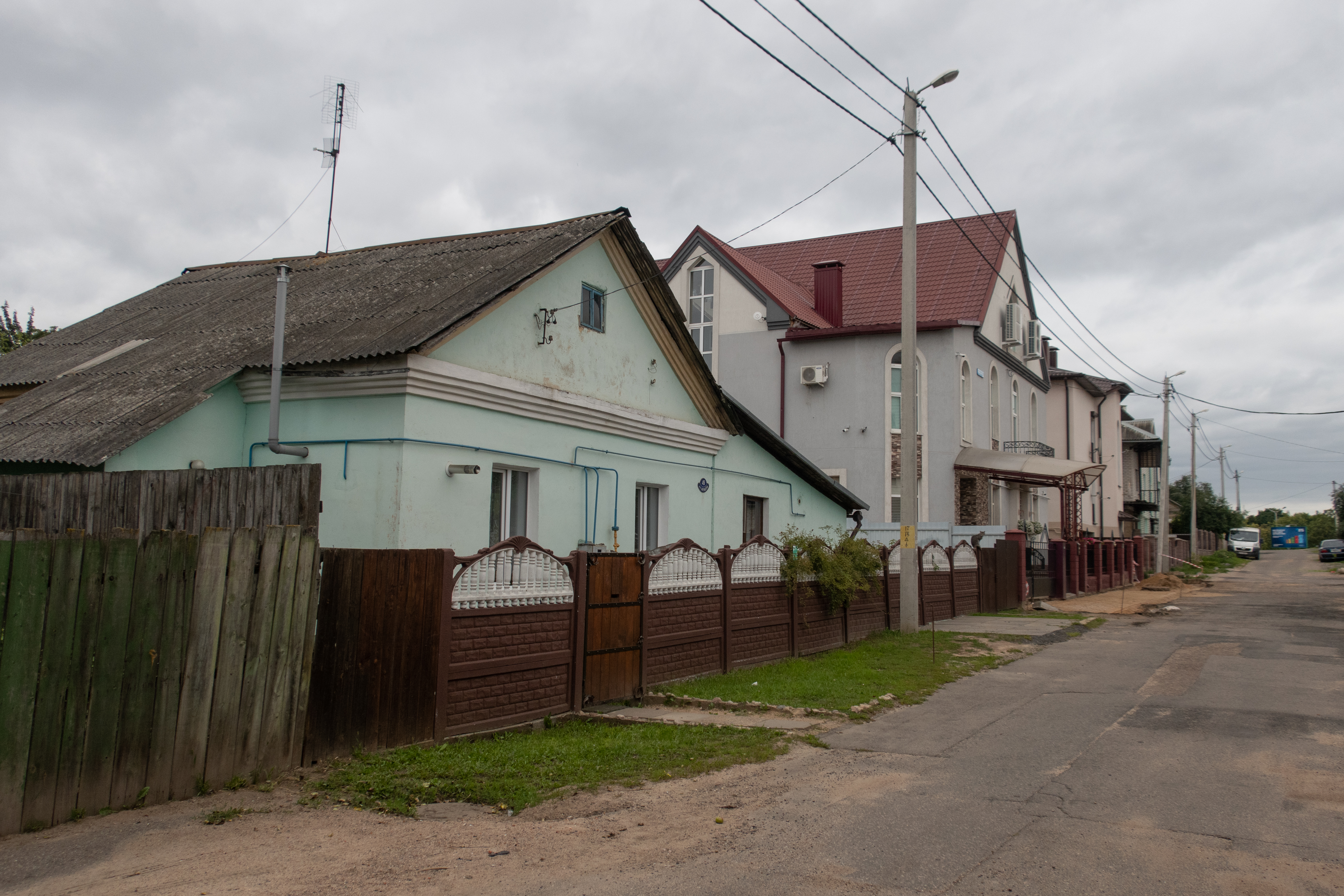 Bahracijona street. Minsk, Belarus